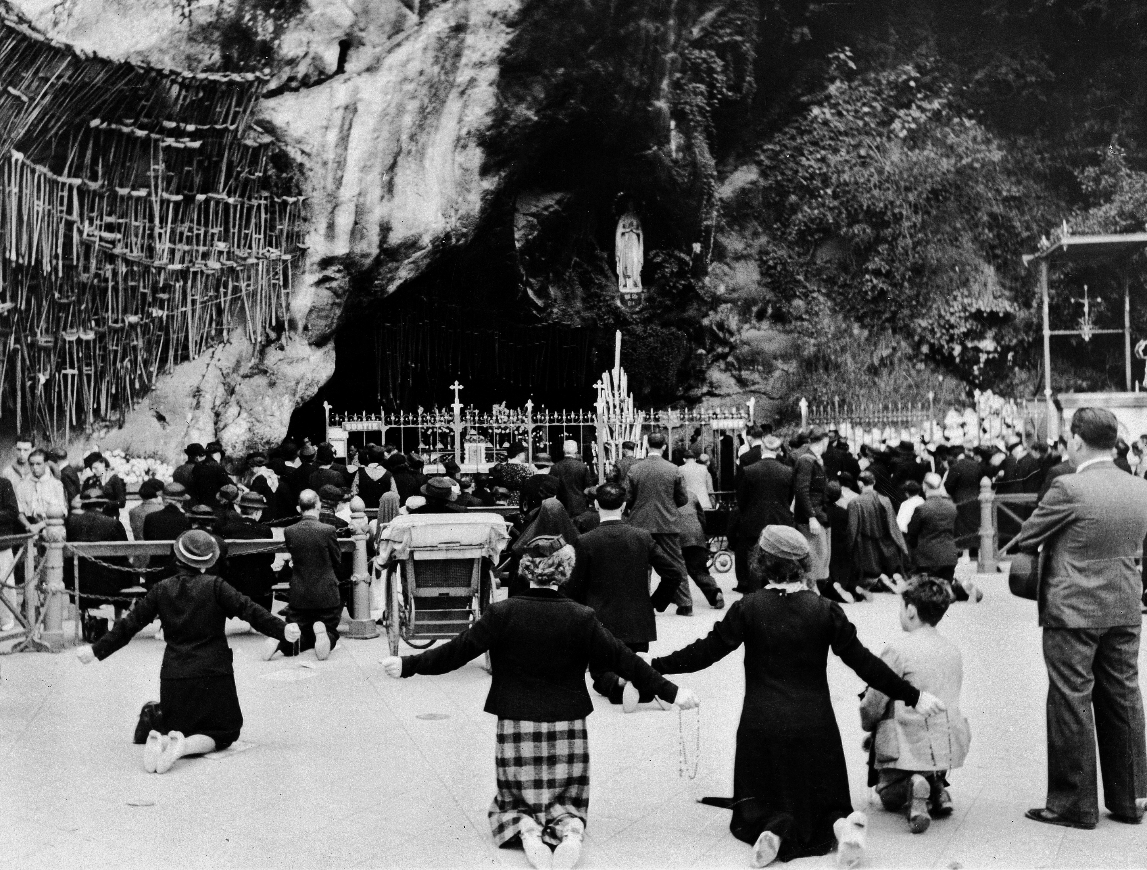 Pilgrims kneeling before shrine of our Lady of Lourdes. Wellcome Images Keywords: lourdes; France.; Religion; Worship; Pilgrimage